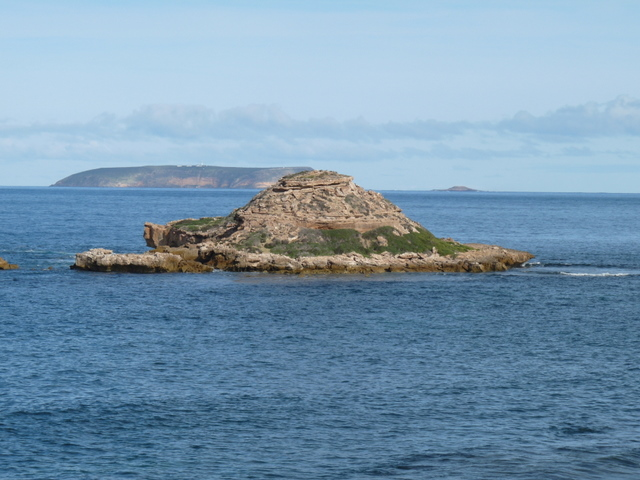 Chinamans Hat Island just off the southern coast of Innes National Park overlooking Investigator Strait